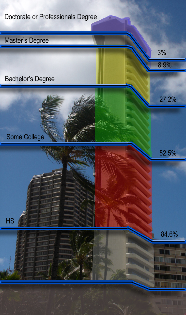 USA. Educational Attainment of the Population 25 Years and Over by Age: 1947 to 2003. I created the graph myself with data from the US Census Bureau and a photograph I shot in Honolulu.